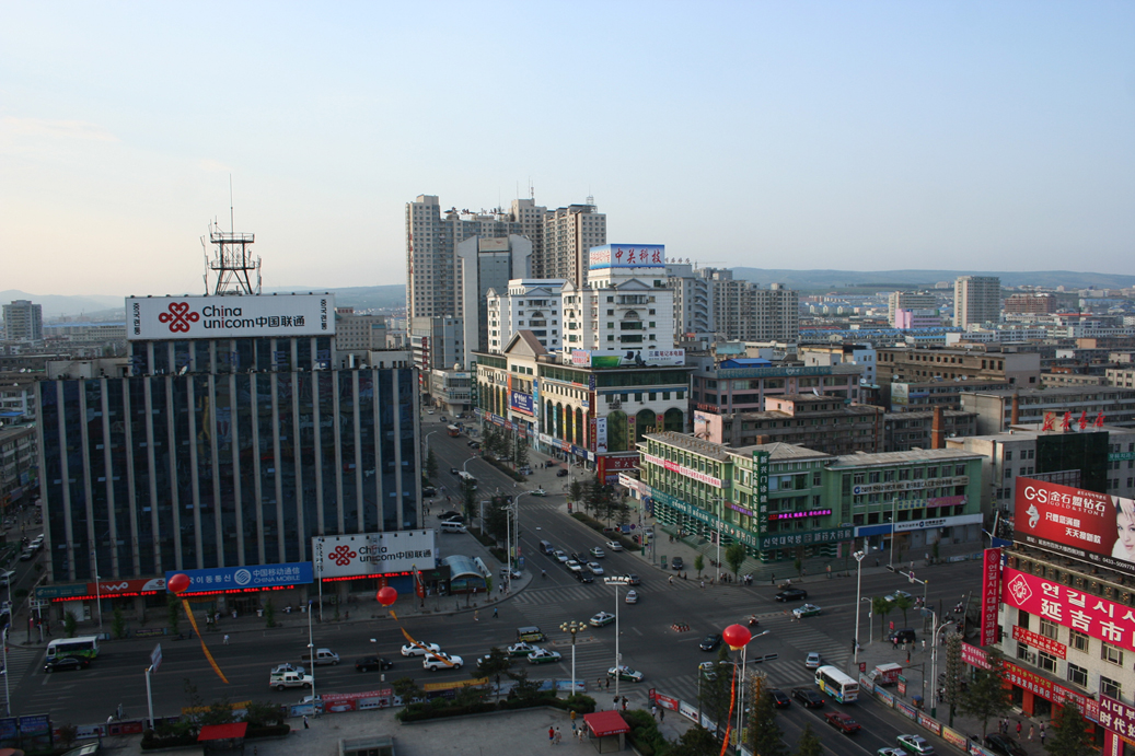 Cityscape of Yanji city in Jilin province, China.